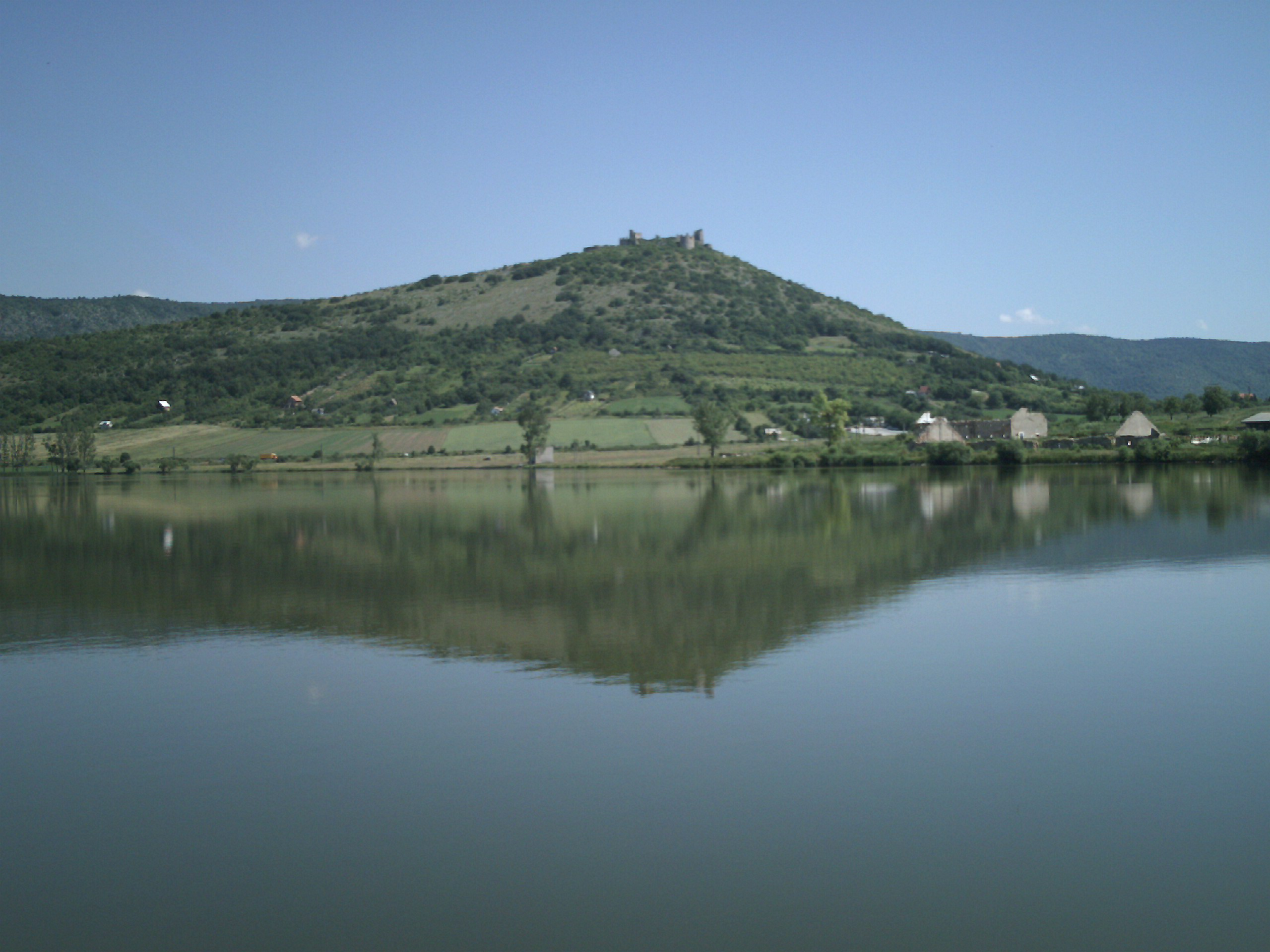 Turna castle in Slovakia view from pond